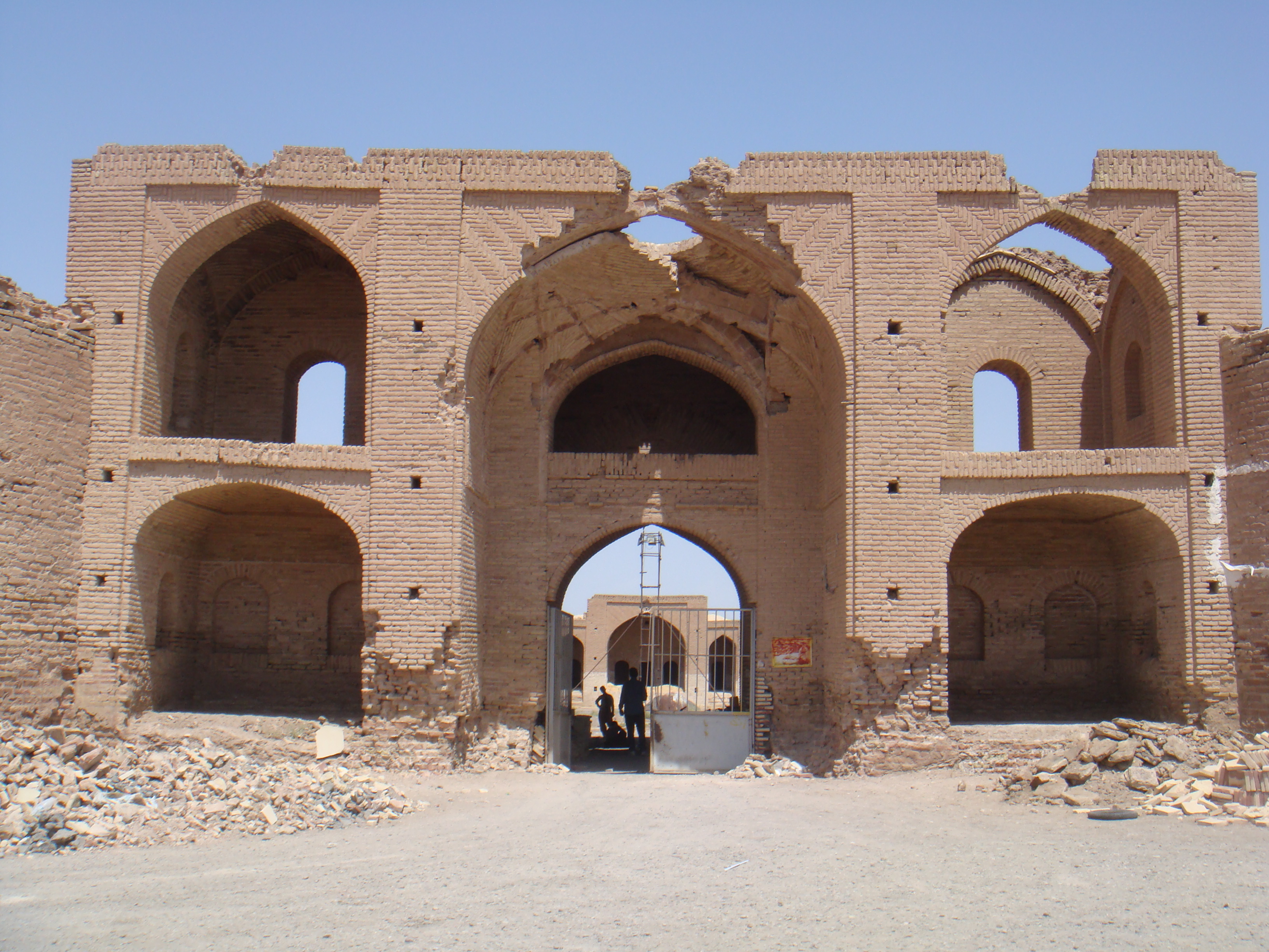 Gate of Dayr-e Gachin